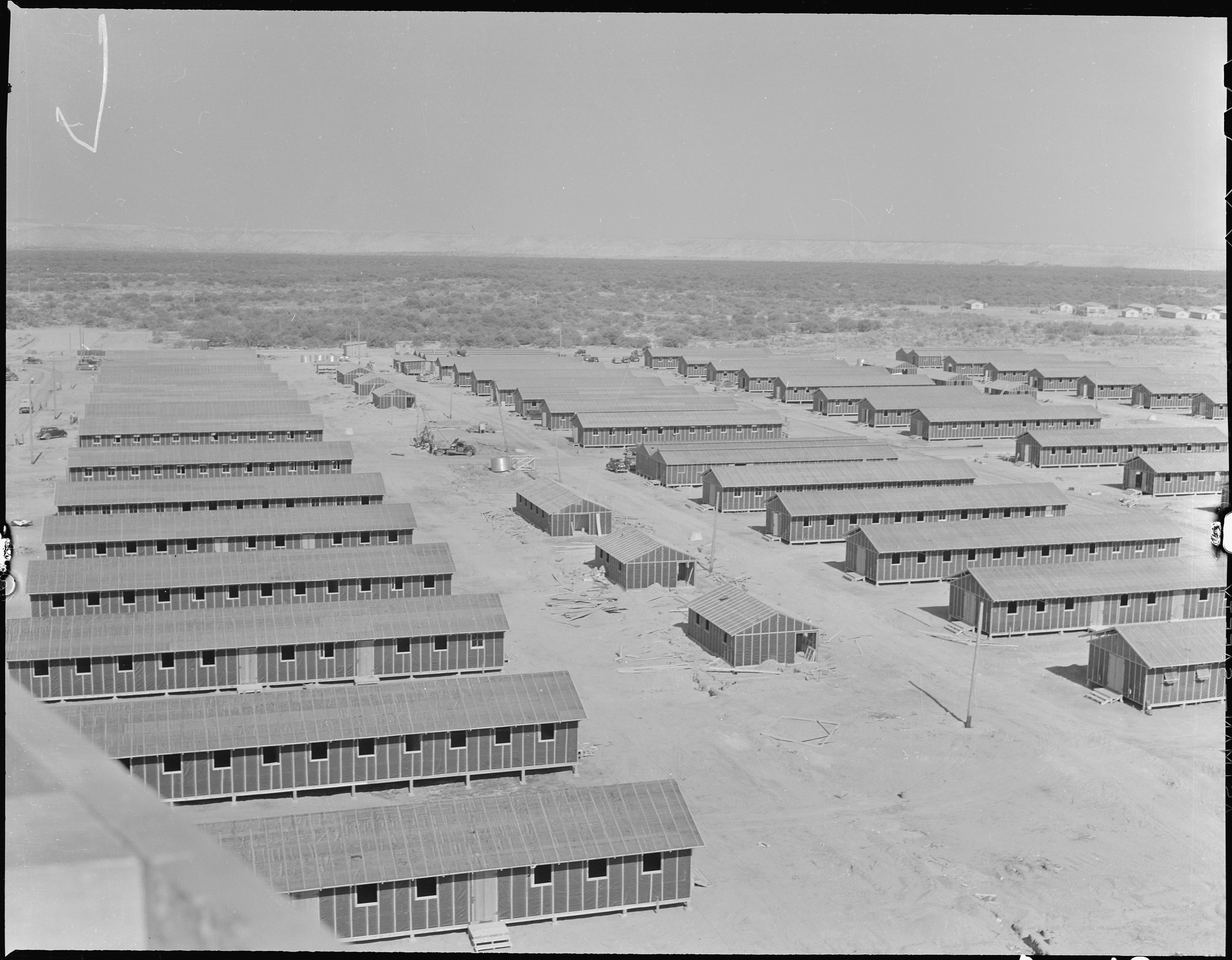 Scope and content: The full caption for this photograph reads: Poston, Arizona. Living quarters of evacuees of Japanese ancestry at this War Relocation Authority center as seen from the water tower.